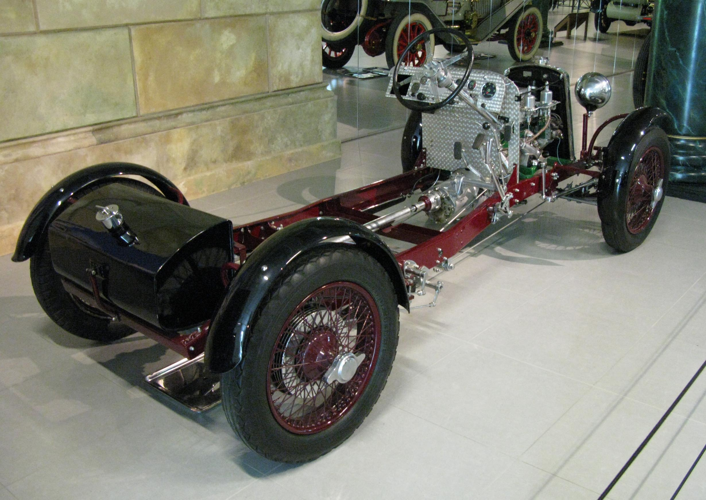 1930s Lea-Francis chassis.